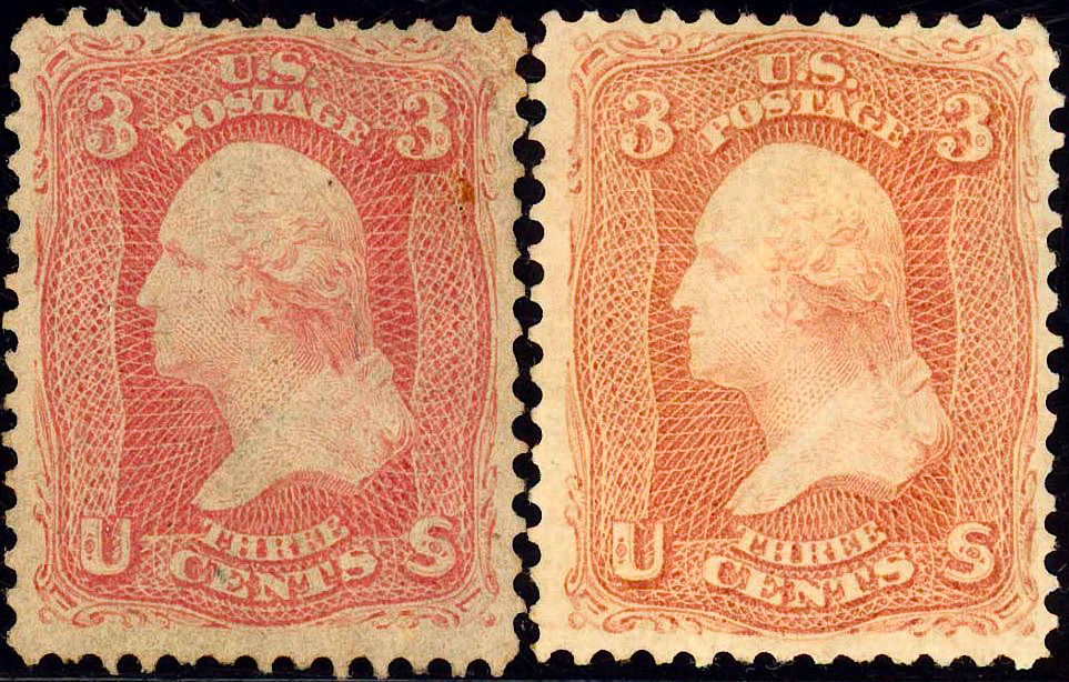 Two US Postage stamps, 1861 issues, 3c